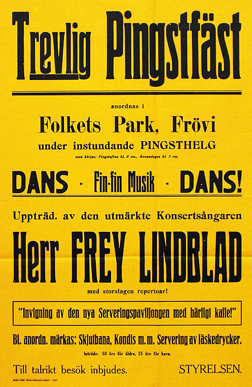 Poster from Frövi folkets park pentecost 1925